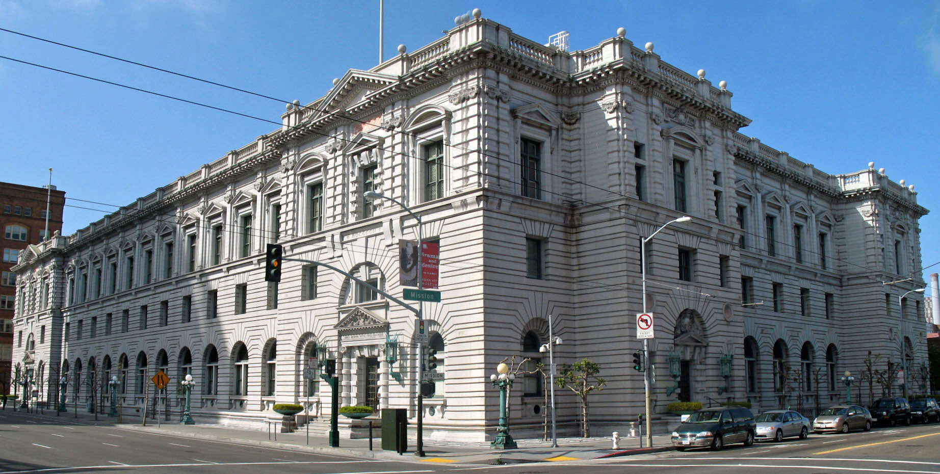 National Register of Historic Places in San Francisco, California. U.S. Post Office and Courthouse, northeast corner of 7th and Mission Sts, San Francisco, California, USA. Photographed from the southwest corner of 7th and Mission Sts.